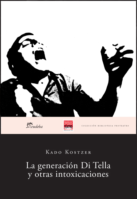 Tapa del libro La generación Di Tella y otras intoxicaciones